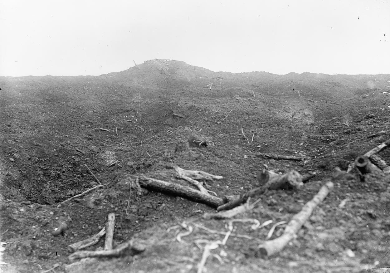 The site of the windmill, looking from the Bapaume Road, immediately after the Canadian troops had advanced